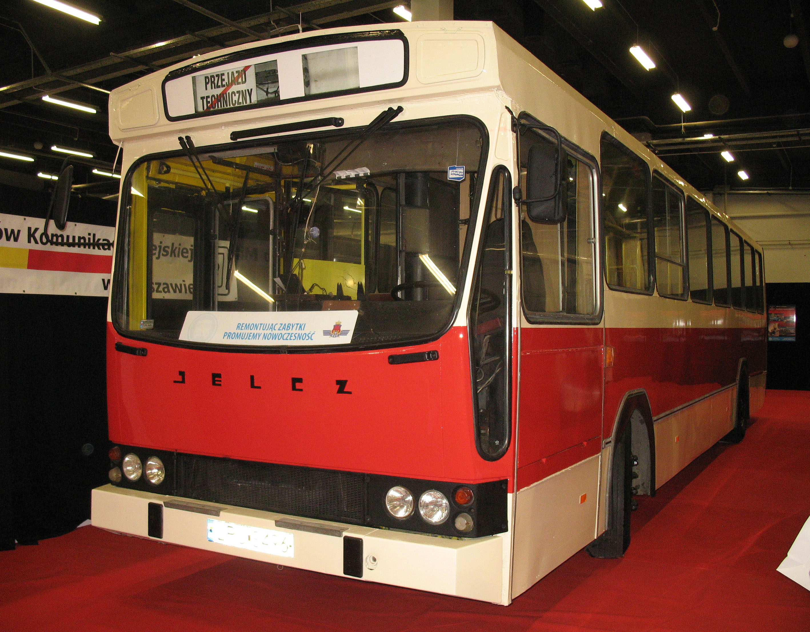 Jelcz PR110M bus (#119, reg. LPU S496) in Kielce, Poland. Built 1991, KMKM from Warsaw operator. Transexpo 2011.